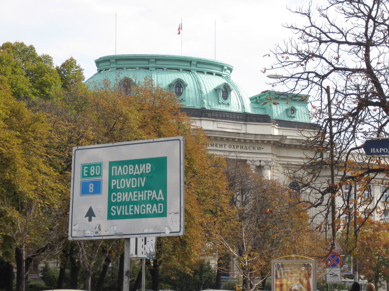 E 80 in center of Sofia.